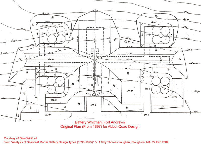 This is a plan of Battery Whitman dated 1897, from the U.S. Army Engineers. It shows the original design of the battery, with four mortar pits of four mortars each, in a rectangular array that was dubbed an "Abbot Quad," after the engineer who first drafted this design (in 1892) as a way of saturating an area with salvo fire from 16 coast defense mortars. In fact, this is one of eight early U.S. mortar batteries that were designed as Abbot Quads, including two of these "half quad" designs. This plan was obtained by Thomas Vaughan, courtesy of Glen Williford, and published as part of his "Analysis of Seacoast Mortar Battery Design Types (1890-1925), Stoughton, MA, 27 February 2004, p. 21. The plan is oriented toward the NNW (at top). The existing Btty Whitman Pit A is at lower left, and Pit B is at top left.